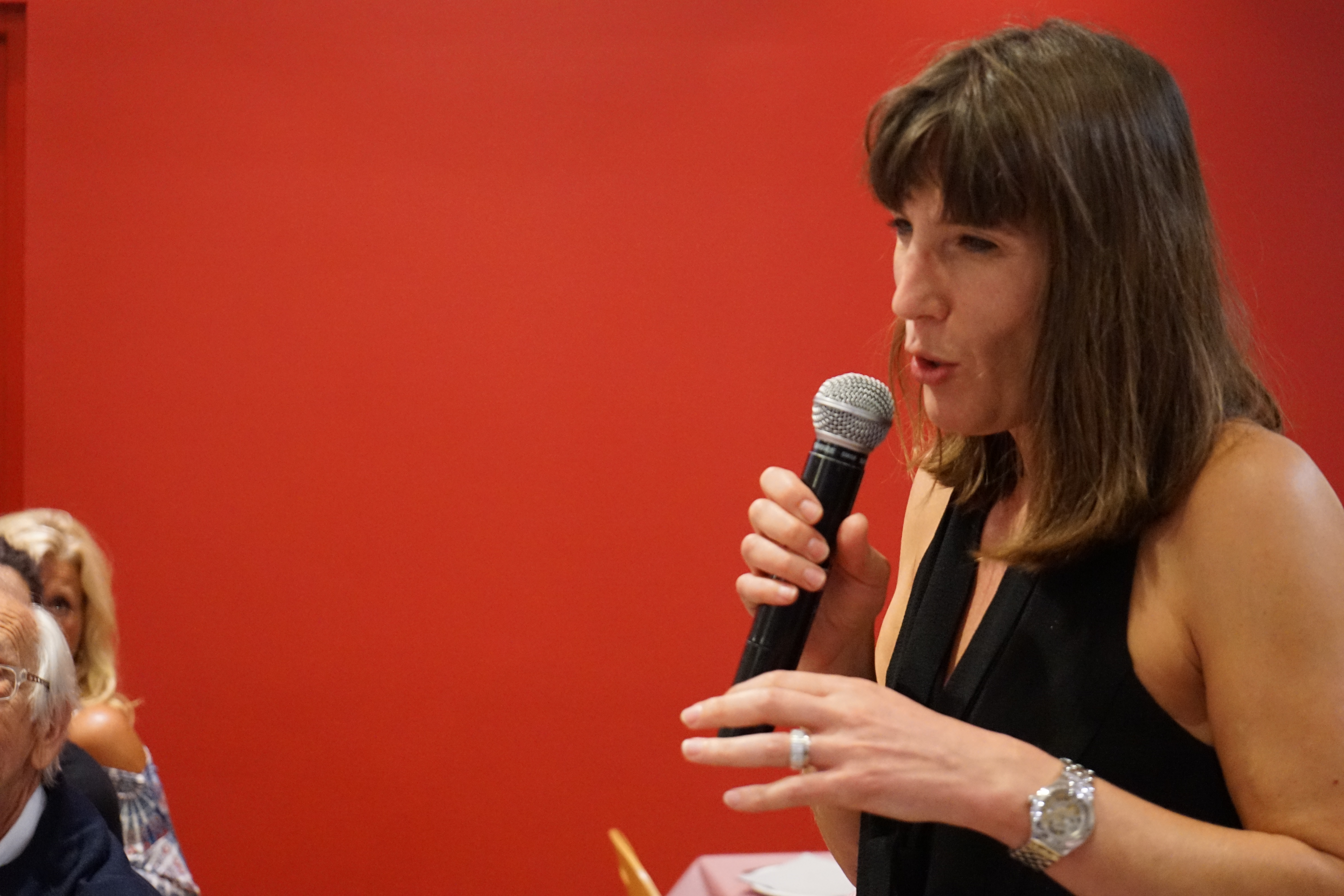 Intervention at the annual seminar of the French Socialist delegation